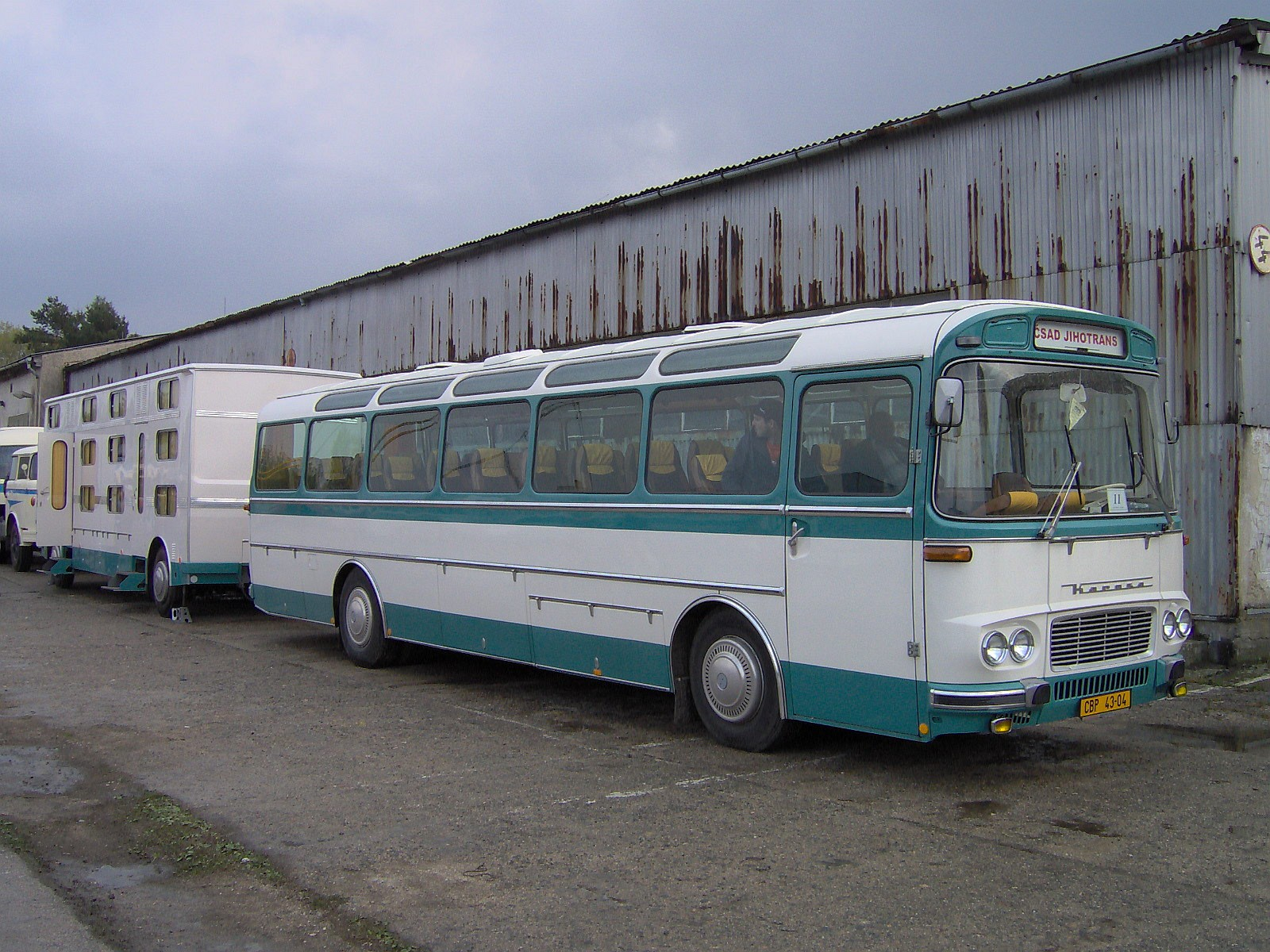 Historical bus Karosa ŠD 11 with trailer car Karosa LP 30 in Brno, Czech Republic